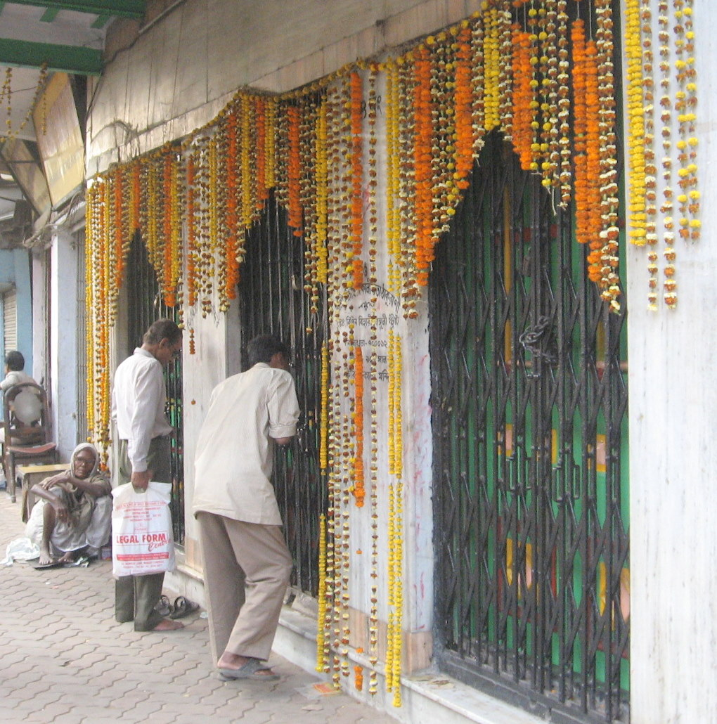 Firinghee Kalibari, Bowbazar, Kolkata